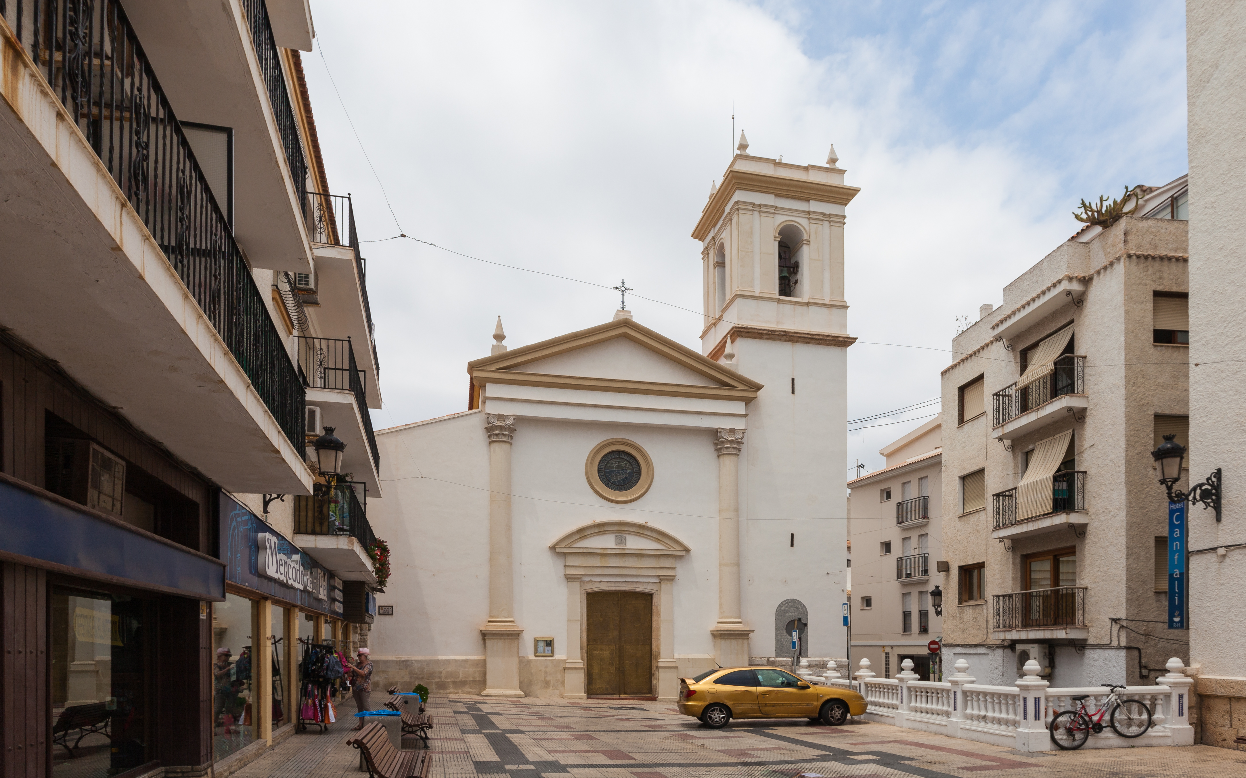 Church of St James and St Anne, Benidorm, Spain